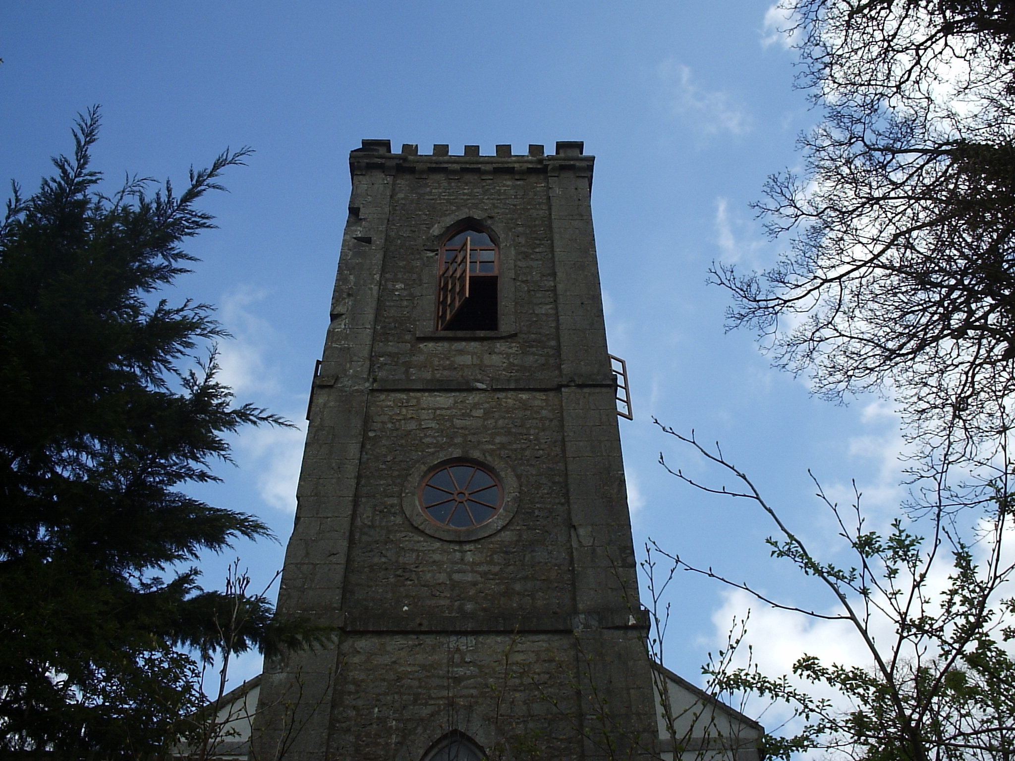 Rochfortbidge's church